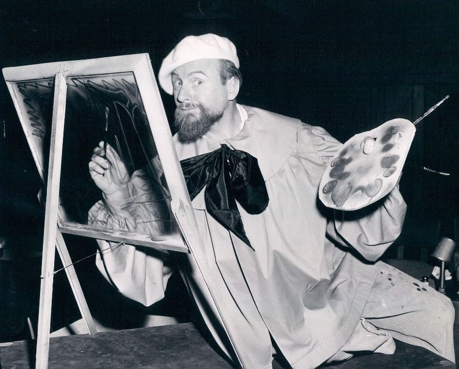 Val Bettin in the play The Beauty Part in 1963